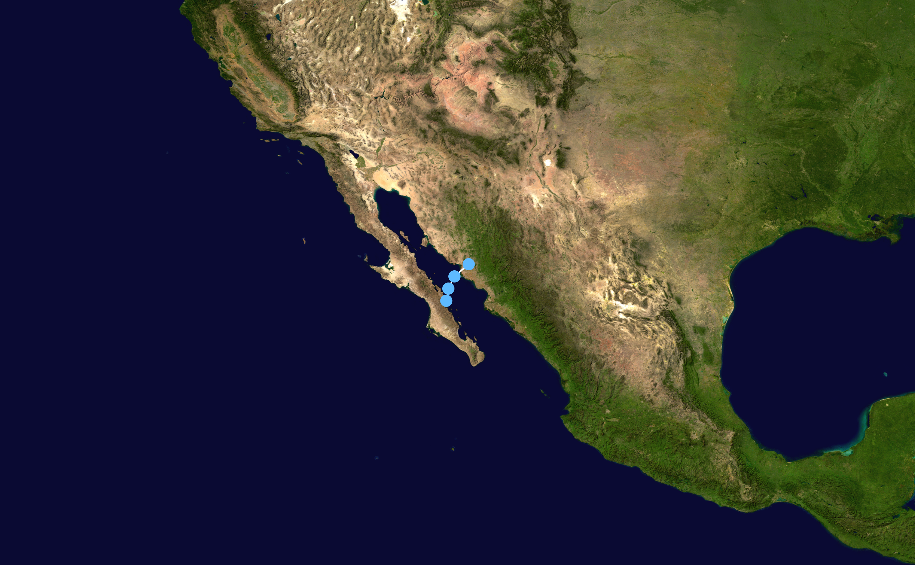 Track map of Tropical Depression Nineteen-E of the 2018 Pacific hurricane season. The points show the location of the storm at 6-hour intervals. The colour represents the storm's maximum sustained wind speeds as classified in the Saffir–Simpson scale (see below), and the shape of the data points represent the nature of the storm, according to the legend below. Saffir–Simpson scale Tropical depression≤38 mph≤62 km/h Category 3111–129 mph178–208 km/h Tropical storm39–73 mph63–118 km/h Category 4130–156 mph209–251 km/h Category 174–95 mph119–153 km/h Category 5≥157 mph≥252 km/h Category 296–110 mph154–177 km/h Unknown Storm type Tropical cyclone Subtropical cyclone Extratropical cyclone / Remnant low / Tropical disturbance / Monsoon depression